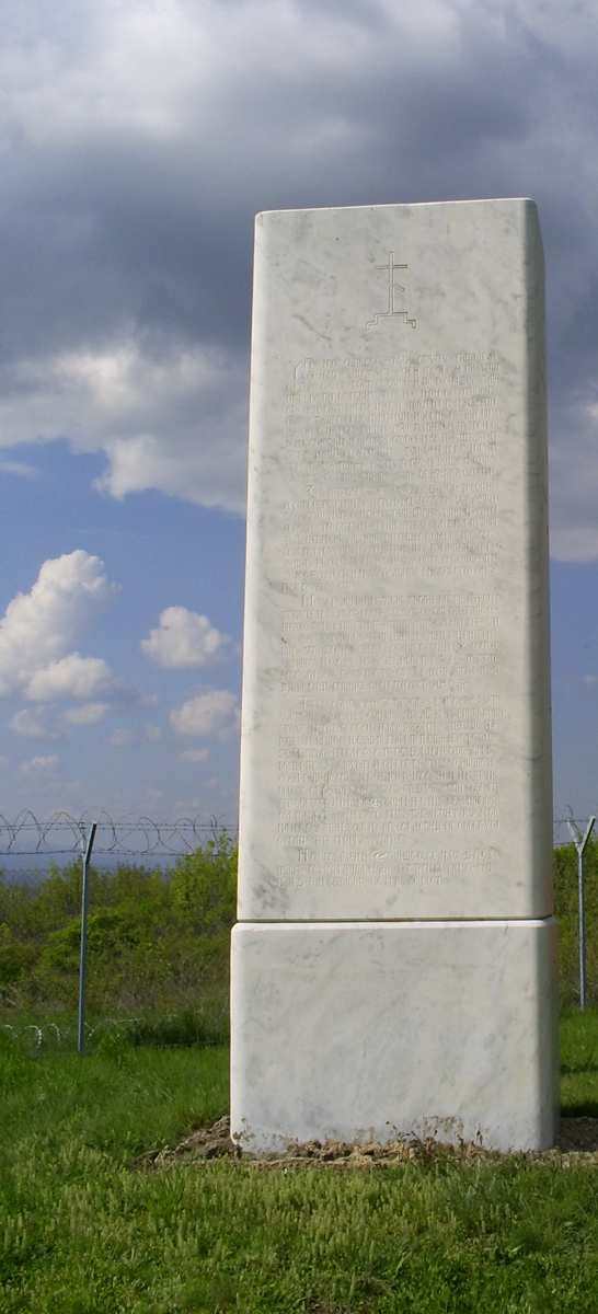 Marble monument with inscription of despot Stefan Lazarević on Gazimestan, Serbia.